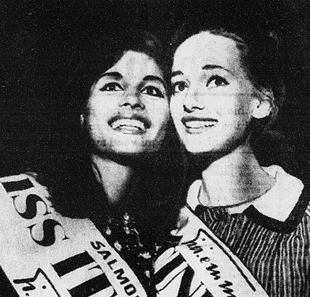 Mirka Sartori and Delia Boccardo rispectively awarded Miss Italia and Miss Cinema, Salsomaggiore, 1964